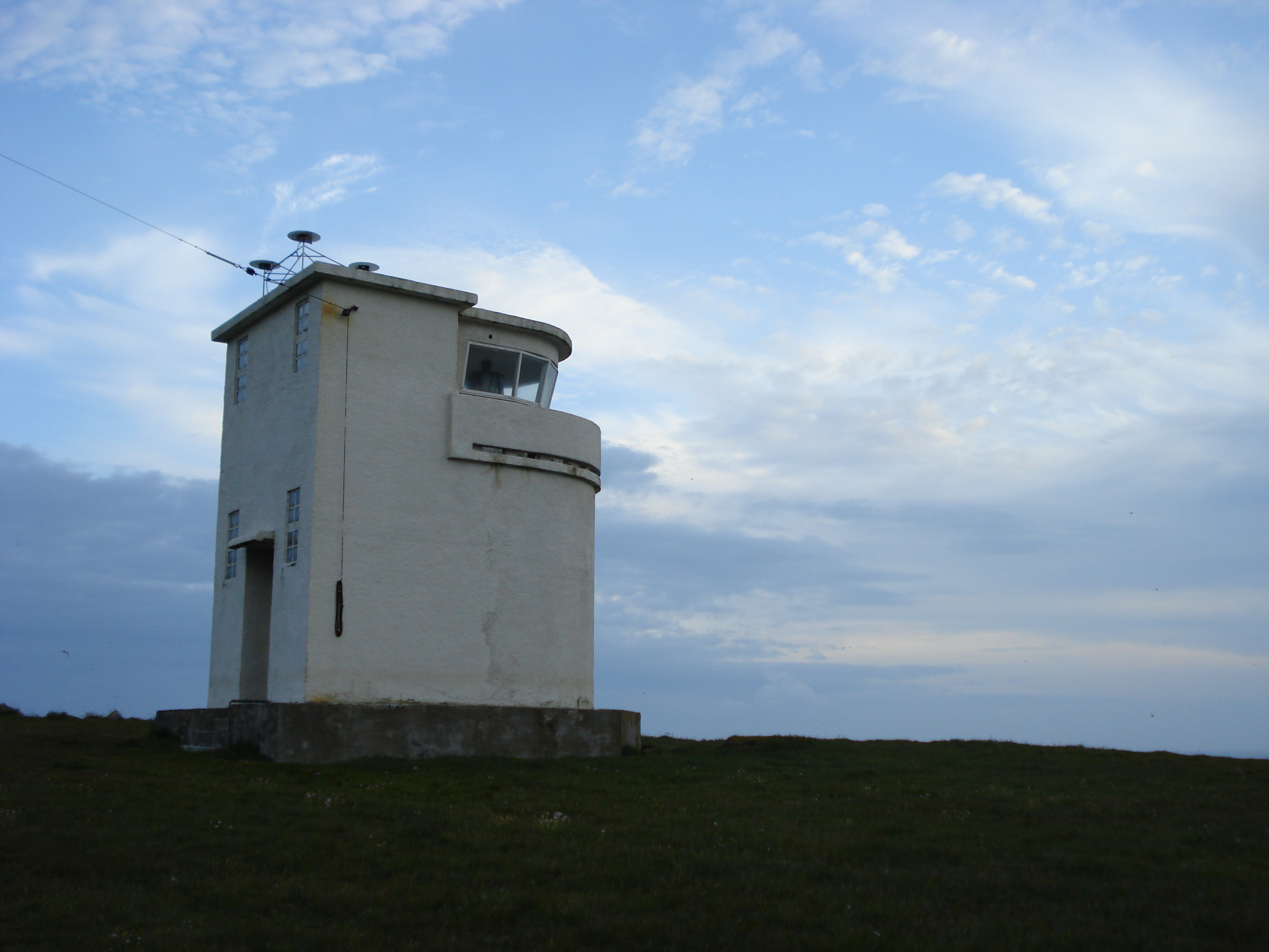 Lighthouse Látrabjarg, Iceland